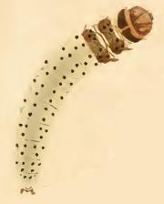 Stainton’s Natural History of the Tineina (1855–1873): Ypsolopha ustella